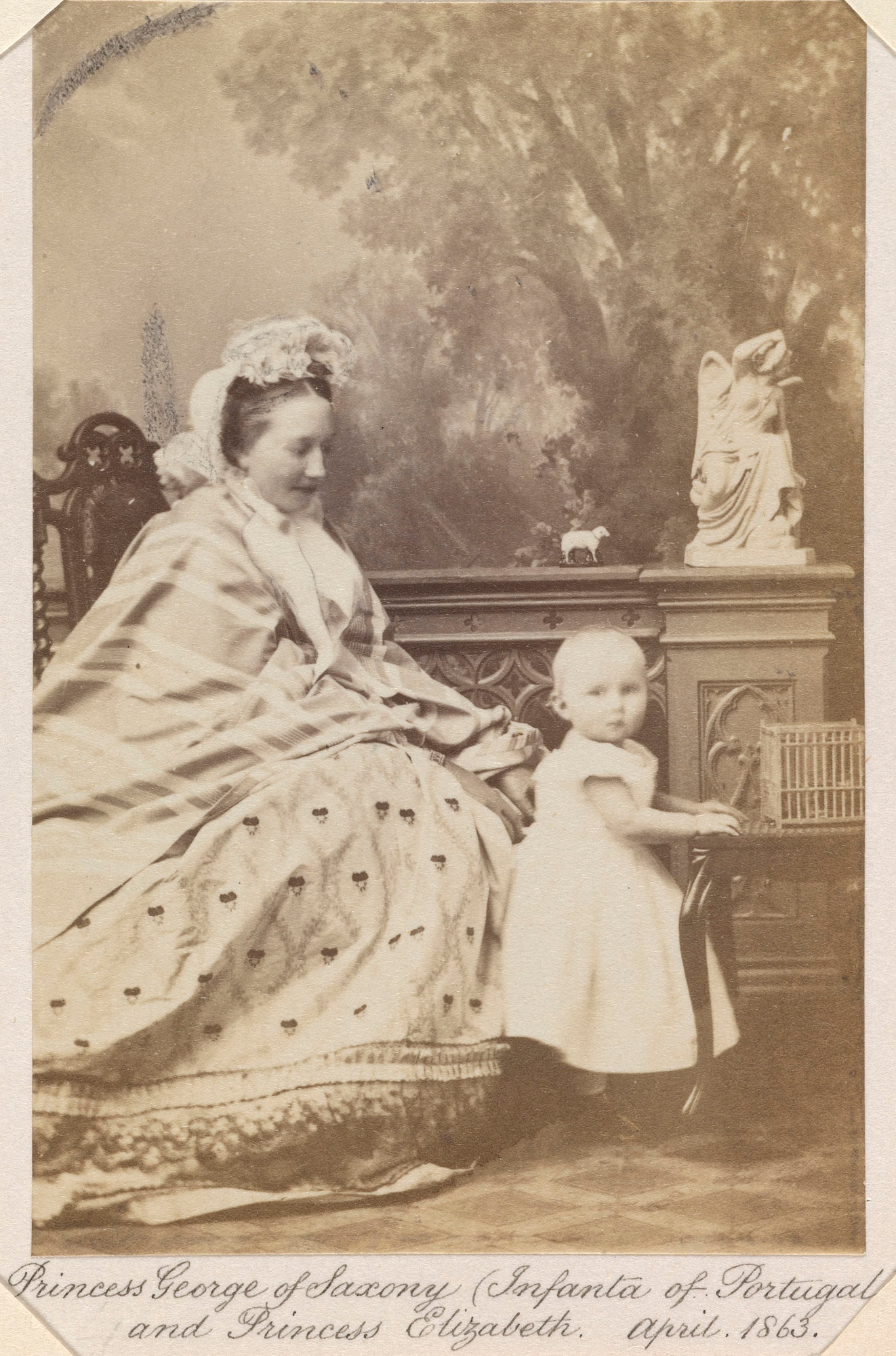 Maria Anna, Princess Georg of Saxony (1843-84) with her daughter, Princess Elisabeth (1862-63), in April 1863.